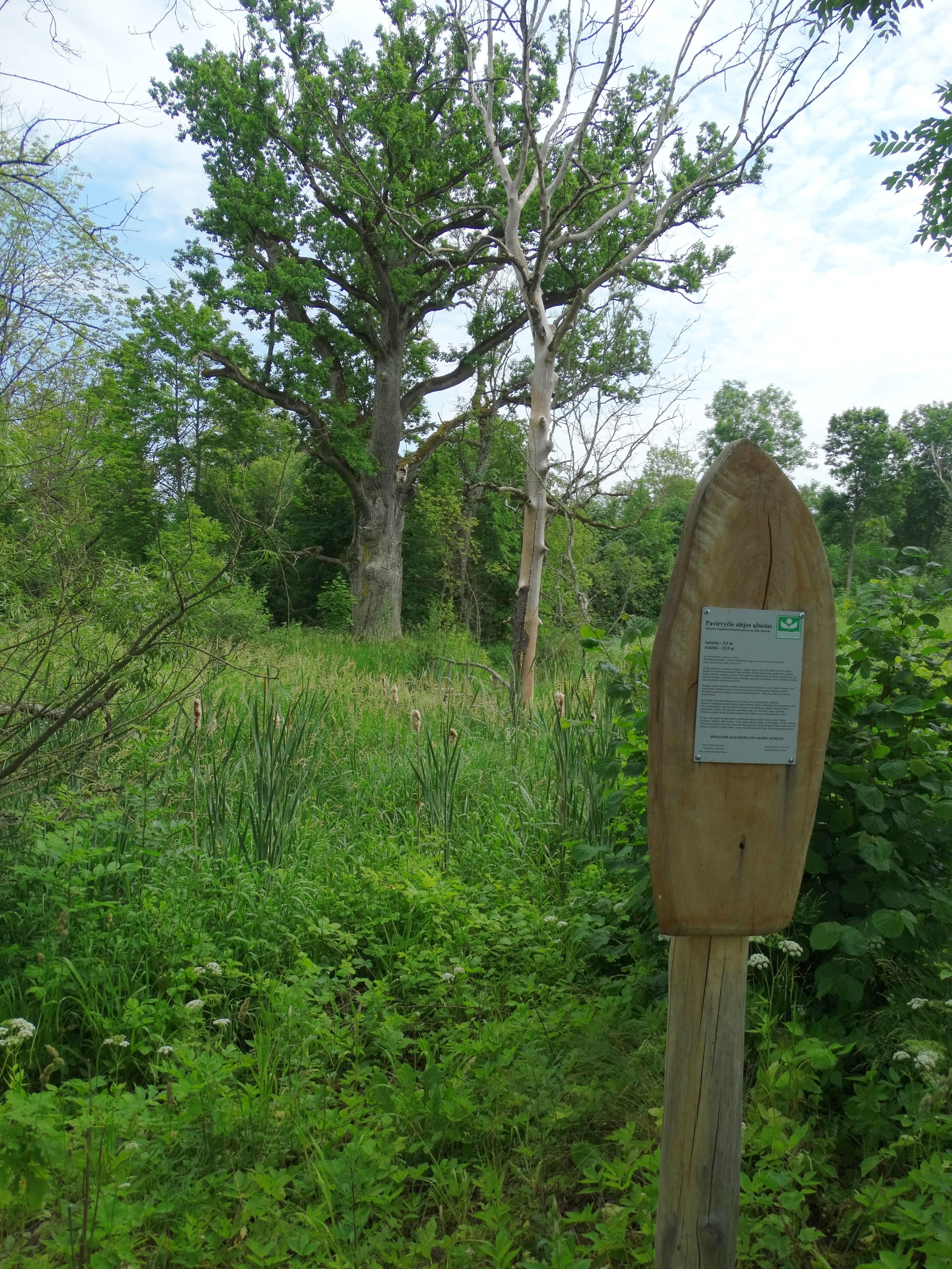 Pavirvytis alley oak, Telšiai district, Lithuania